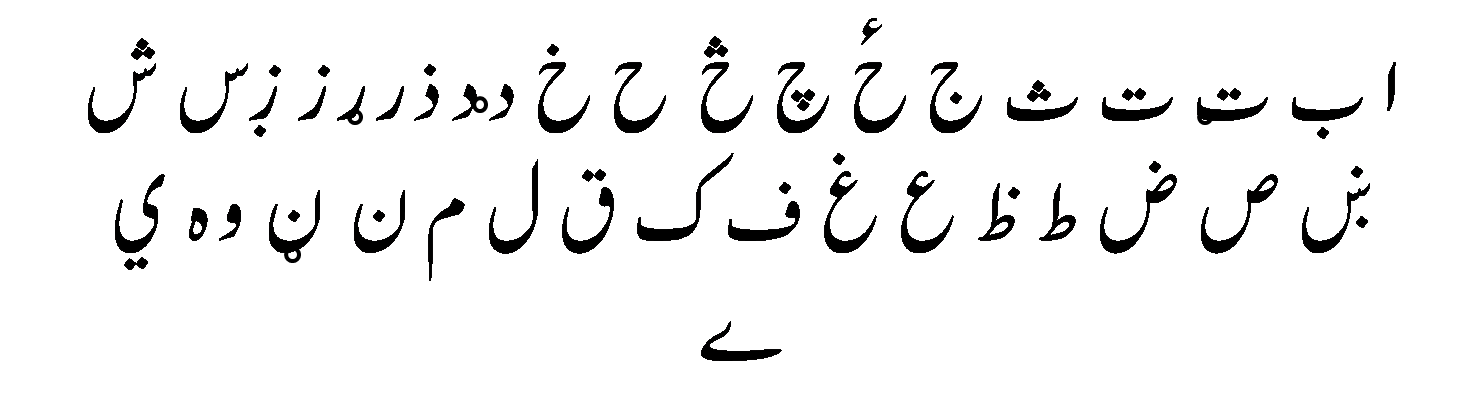 alphabets in nastaliq